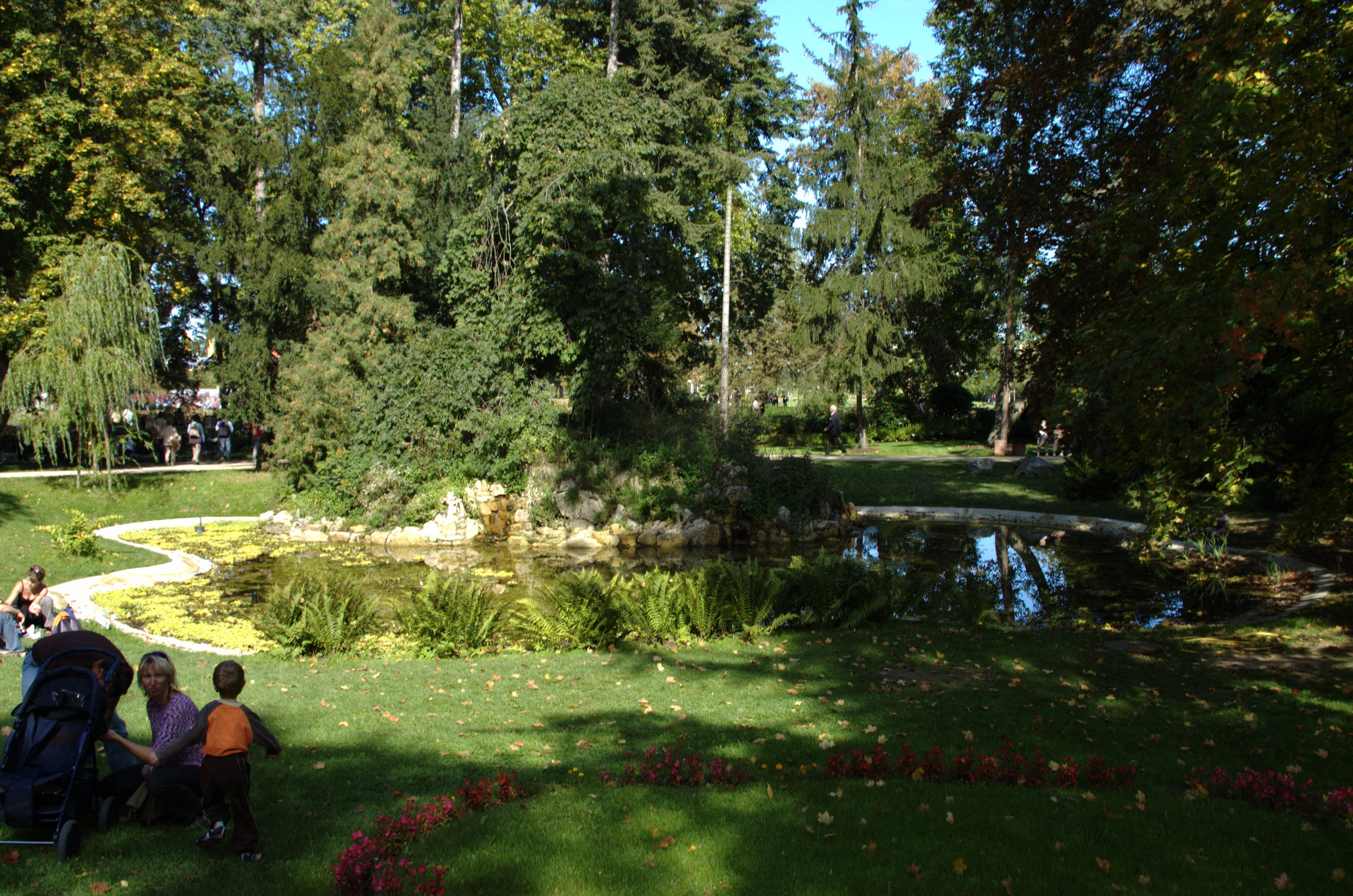 Bundesgartenschau Gera and Ronneburg 2007: Garden of Villa Jahr in Gera